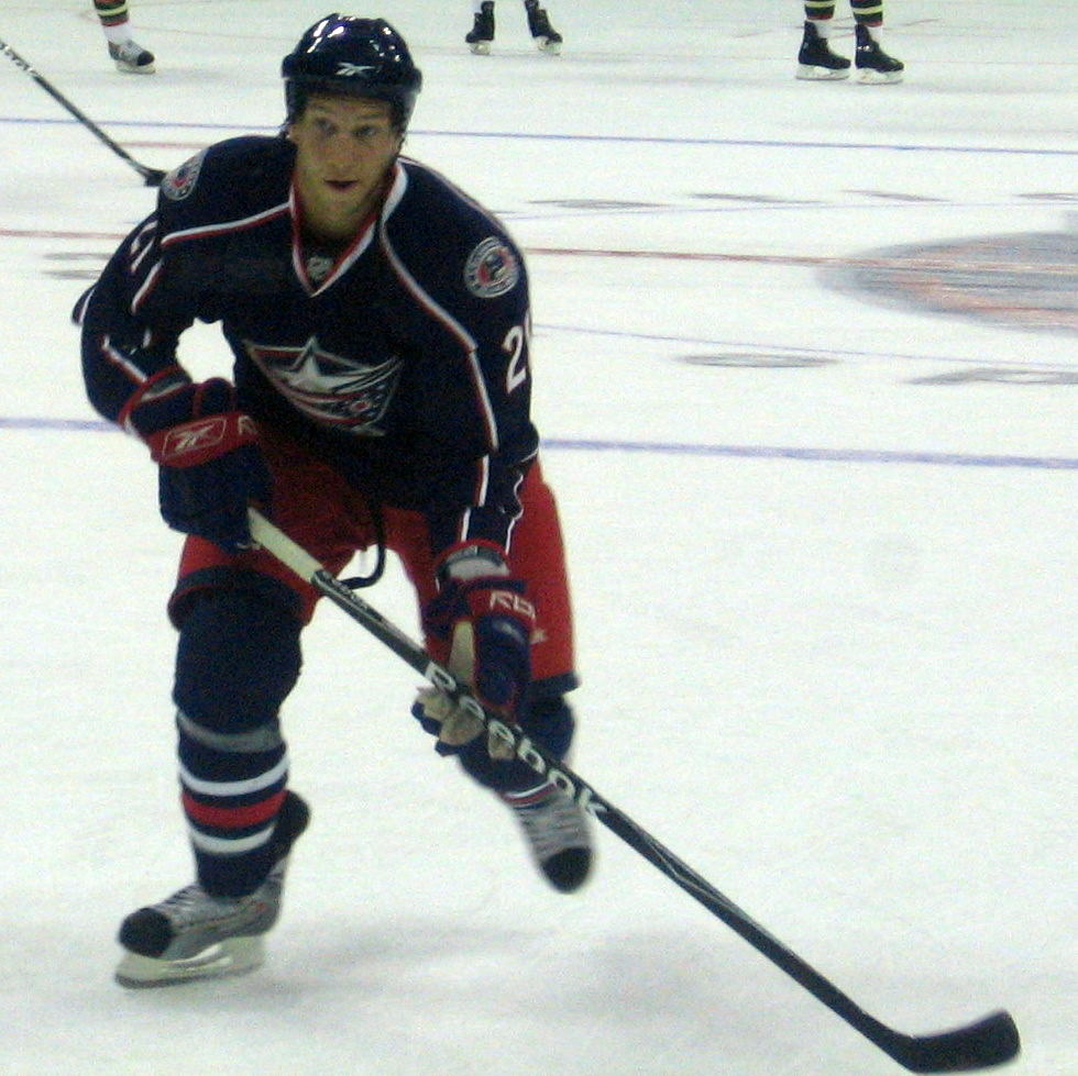 Alexandre Picard of the Columbus Blue Jackets prepares for a pre-season game against the Minnesota Wild at Nationwide Arena.